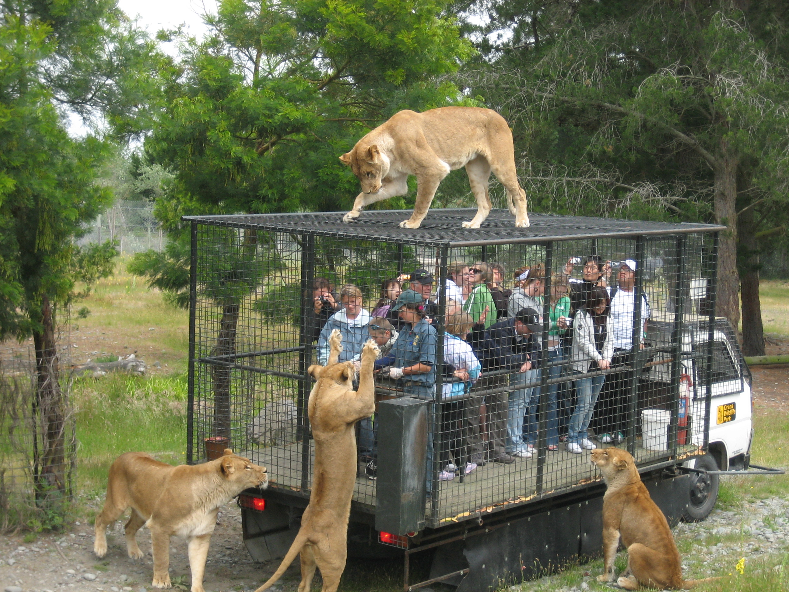 It was feeding time for these lions (a mother and her three cubs). The people inside the feeding truck got the best view!